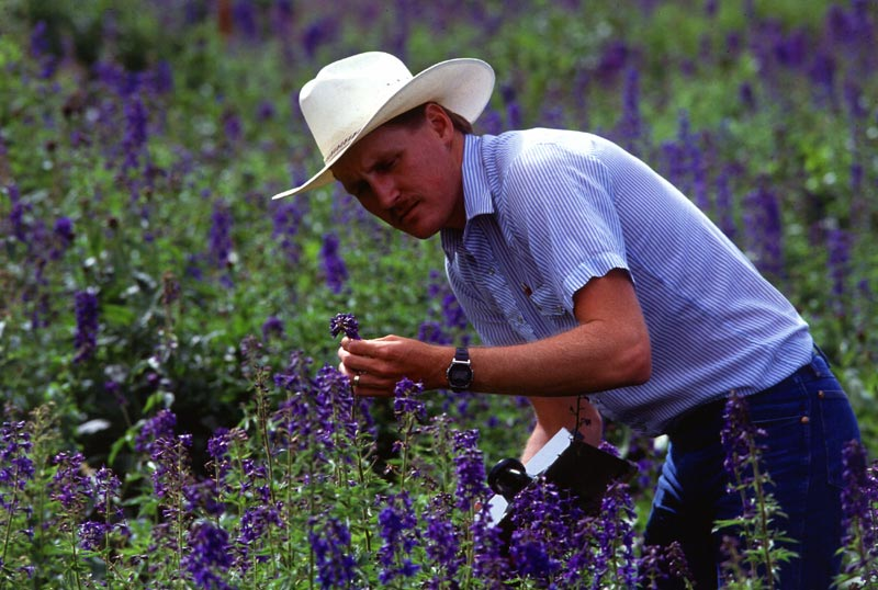 On high mountain rangelands in central Utah, range technician Gus Warr collects larkspur samples to measure alkaloid levels. (K4377-14)